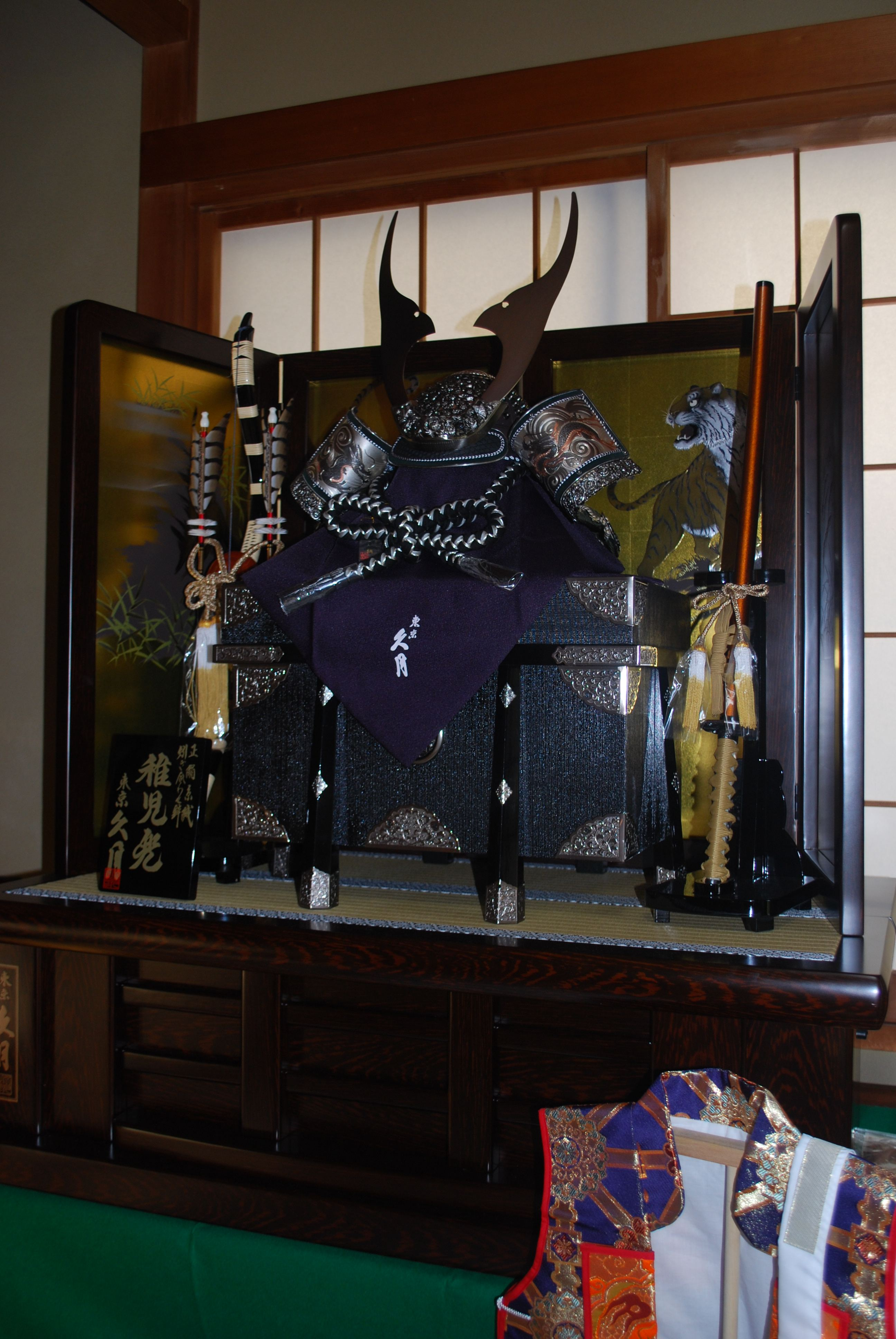 Helmet for the Boy's Festival,Katori-city,Japan